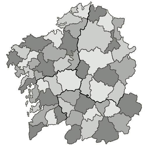 Regions of Galicia (Spain) Based in: Image:Situacion Betanzos.PNG Source: Designed by Leoplus. Original picture, designed by Alyssalover.